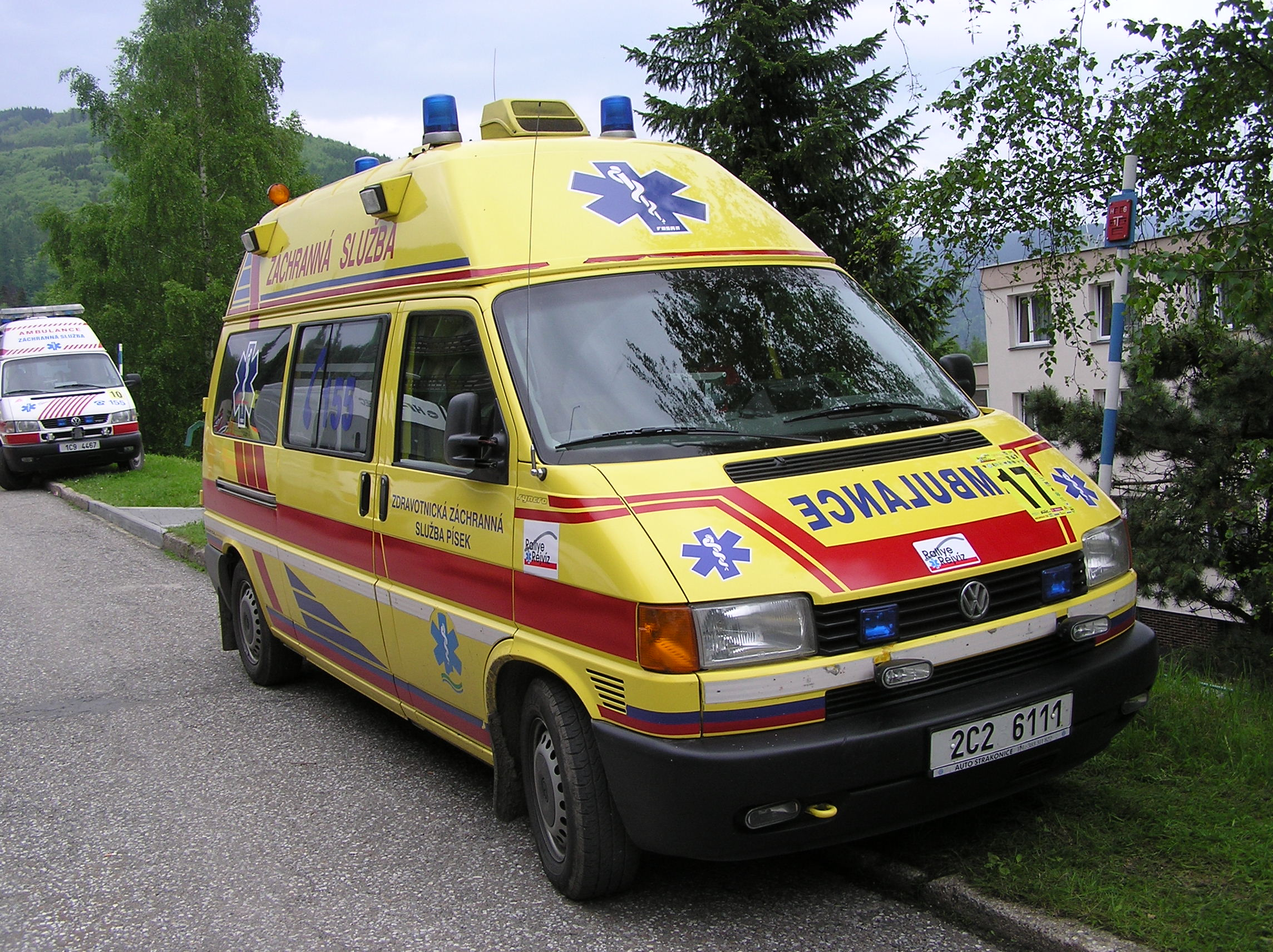 Volkswagen Tranporter T4 ambulance vehicle of the Emergency Medical Services of South Bohemian Region, Czech Republic. Photo was taken during the international competition Rallye Rejvíz 2010 in Kouty nad Desnou, Czech Republic Česky: Volkswagen Tranporter T4, sanitní vozidlo Zdravotnické záchranné služby Jihočeského kraje